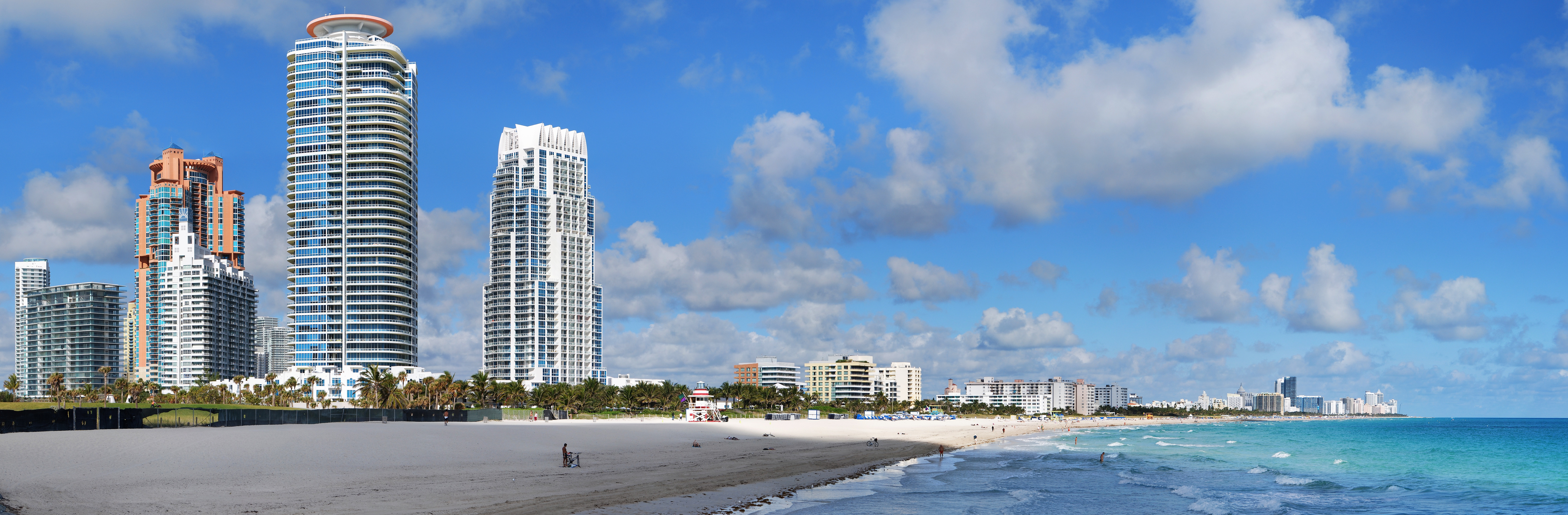 Panoramic image of South Beach, the southern end of Miami Beach in Miami, Florida